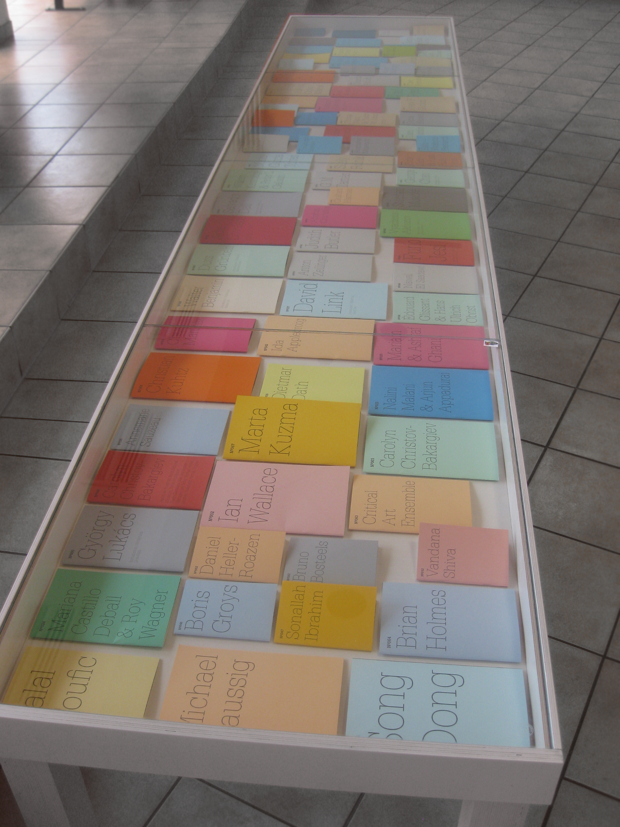 Publications made for Documenta 13